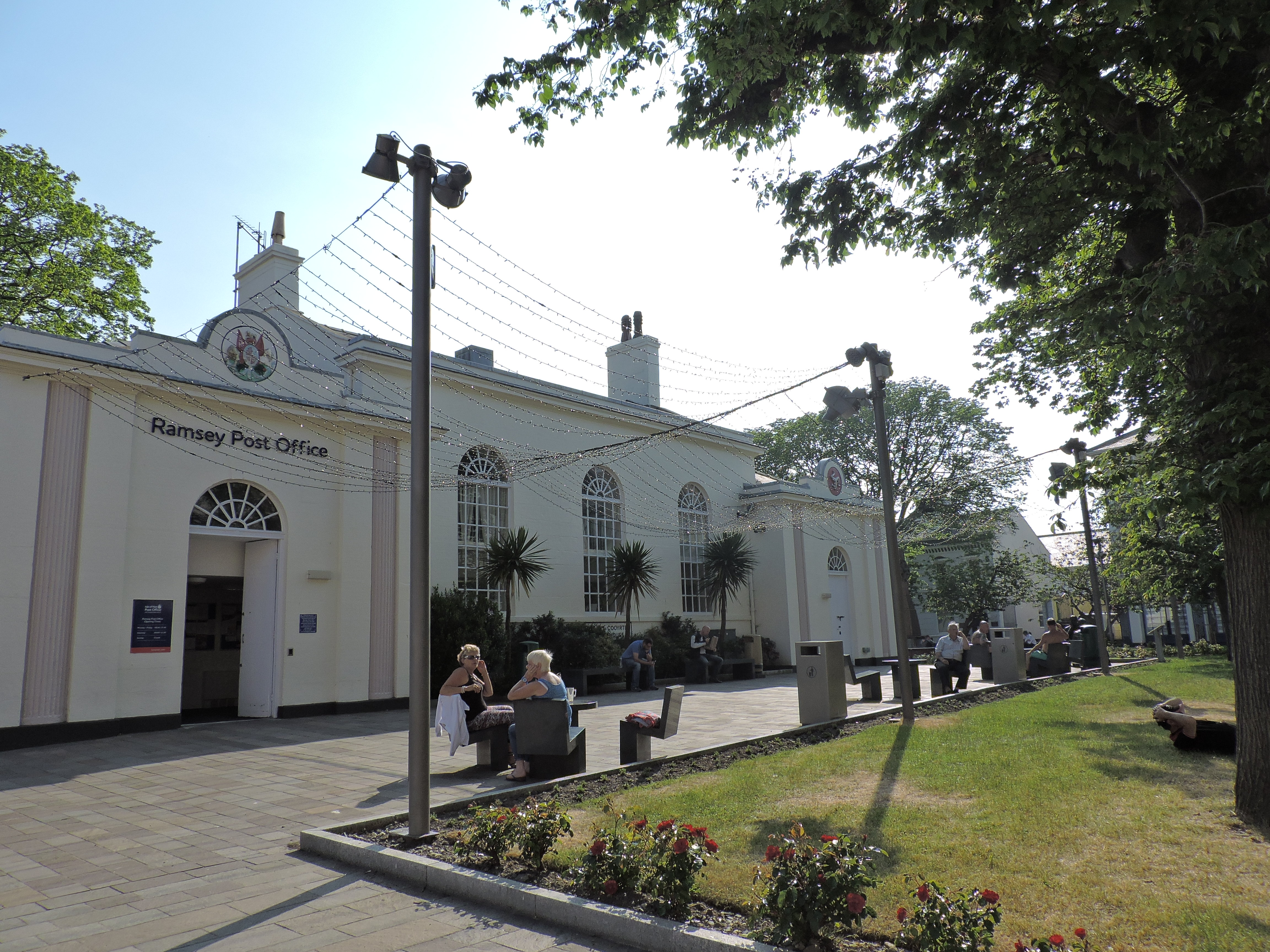 A picture of Ramsey Courthouse building, in the centre of Ramsey, Isle of Man. The building is no longer used as a courthouse.